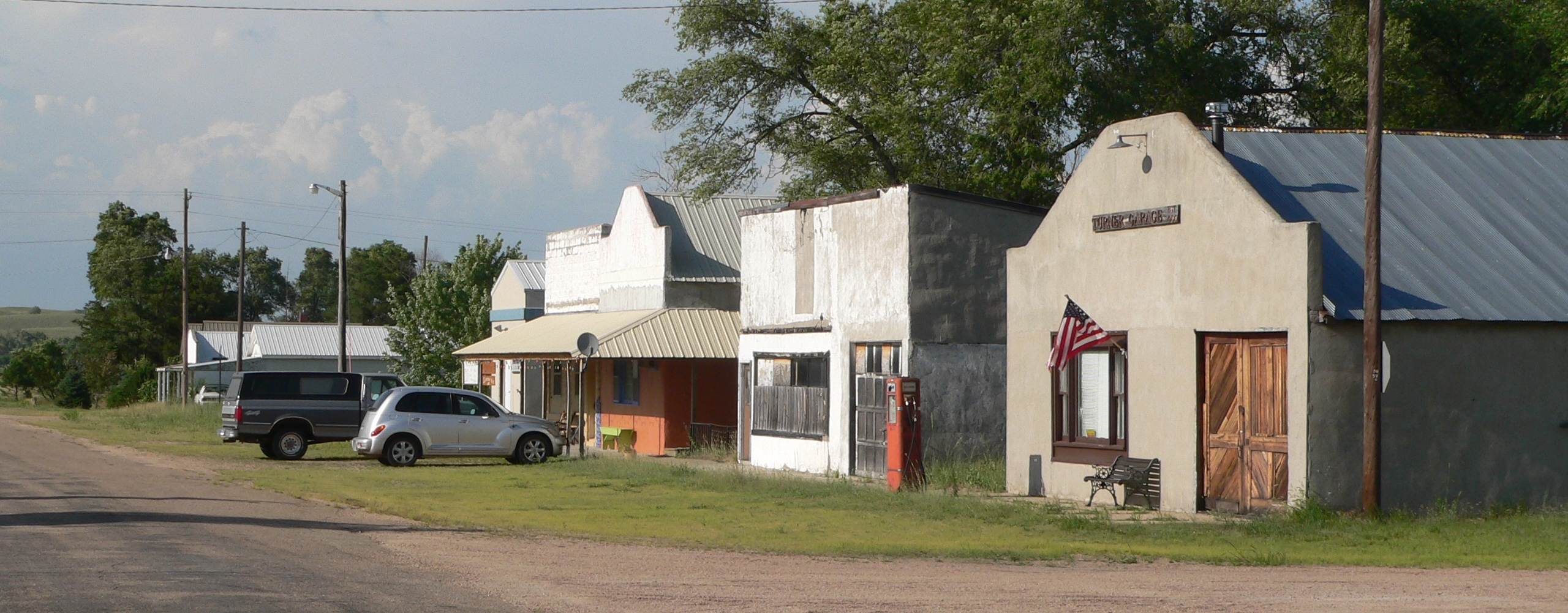 Downtown Brewster, Nebraska: east side of Lincoln, looking north from about Manderson.